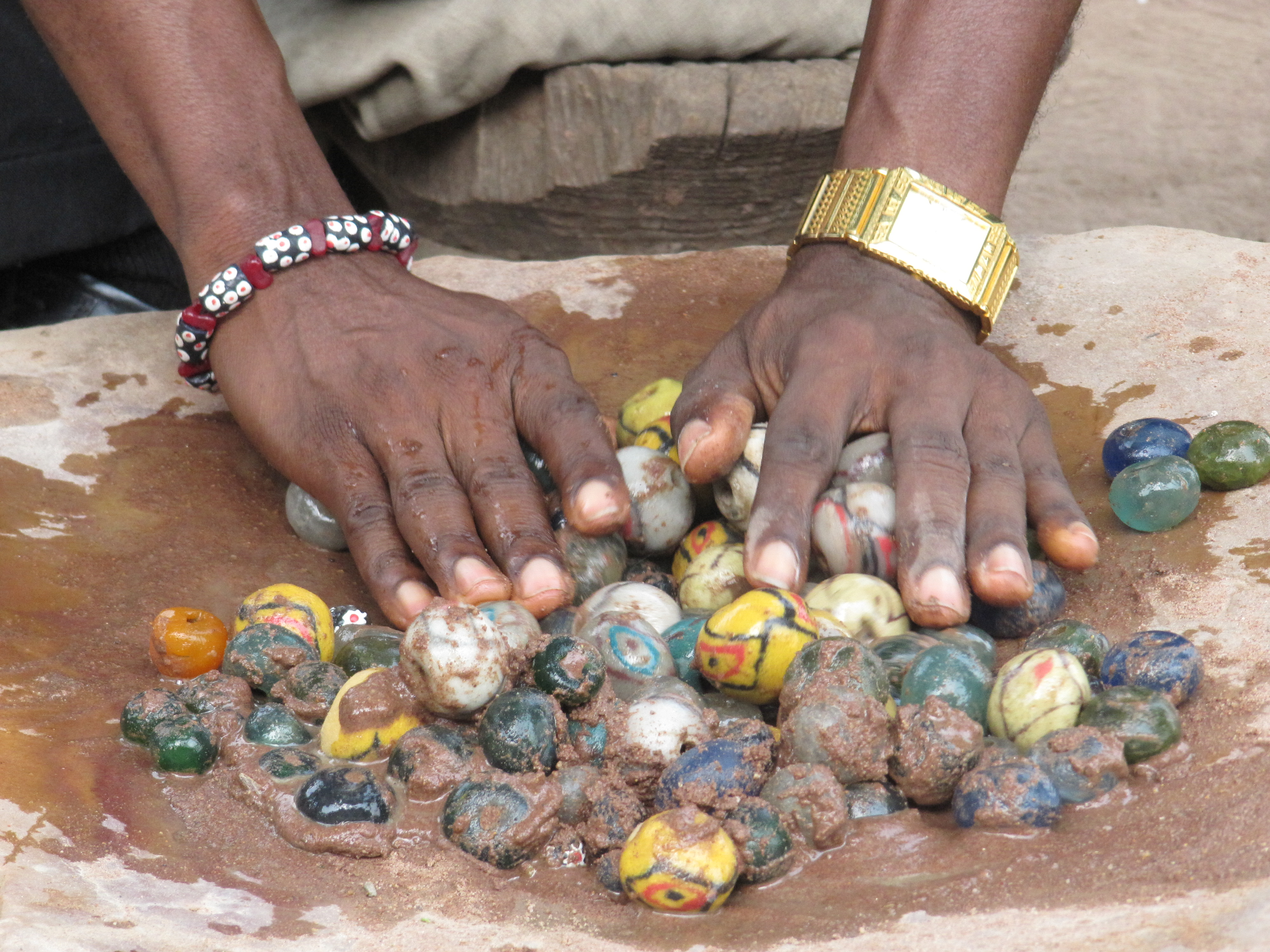 polishing of Ghanaian glass beads. Cedi beadfactory, Odumase Krobo, Ghana This is an image of Cultural Fashion or Adornment from Ghana